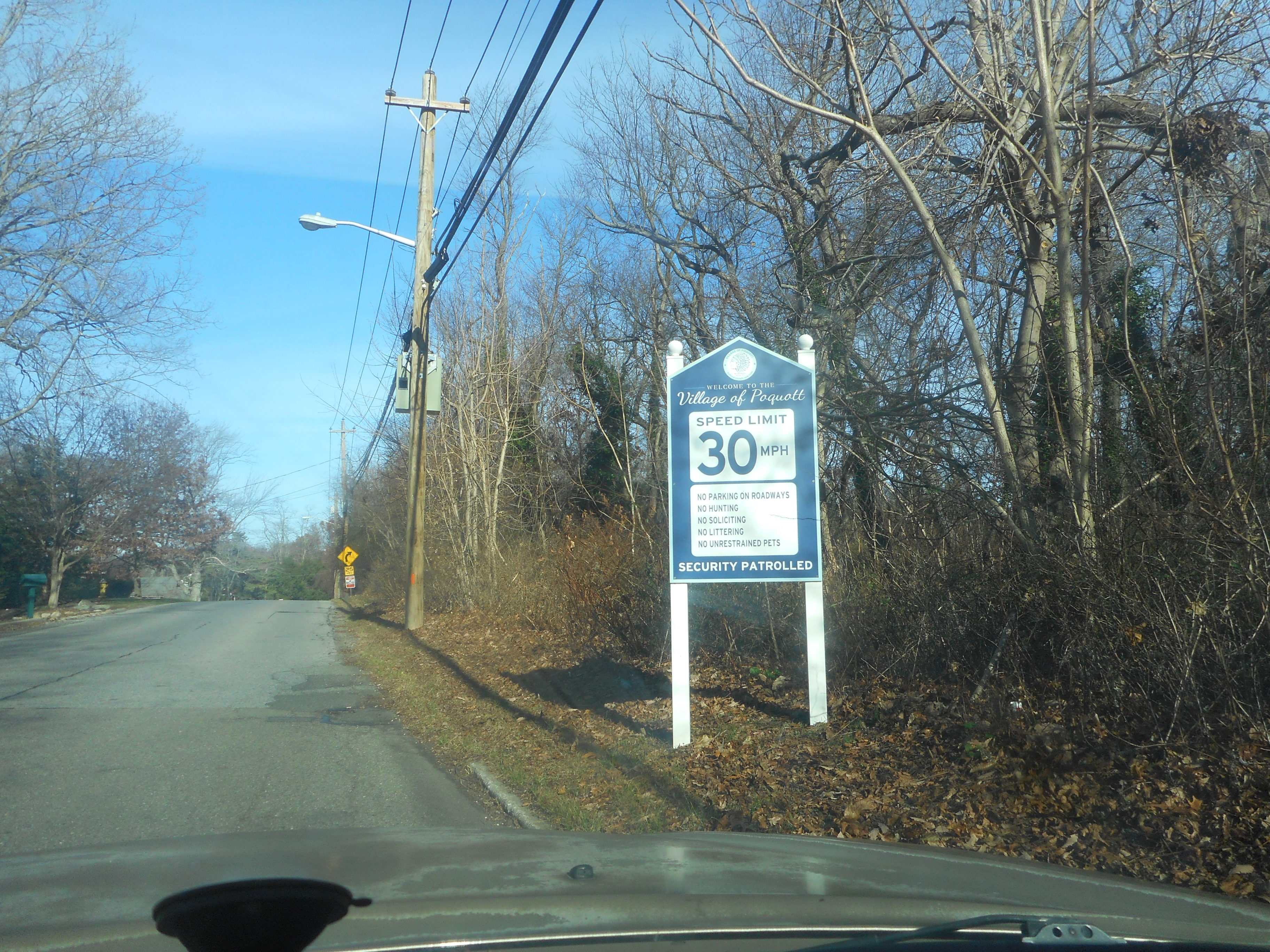 Second shot of a very non-MUTCD compliant speed limit sign combined with local restrictions sign along Washington Street just north of the southern terminus with New York State Route 25A in the Village of Poquott, New York. Prior to gabled powder blue and white sign combining all messages in this photograph, roads that entered Poquott had only slightly less non-MUTCD complaint speed limit signs above an equally sized road sign explaining the restrictions of the village, with a supplemental regulatory sign underneath. Taken from my car while briefly parked along the road, at a slightly different angle than the first picture.